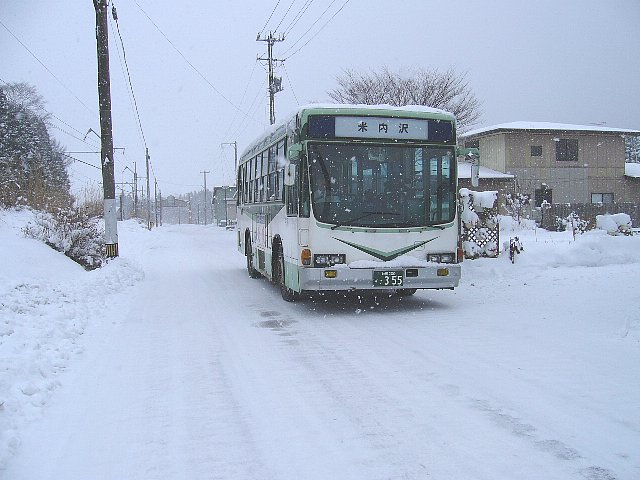 Shuhoku Bus car at Hayaguchi Station, Odate, Akita